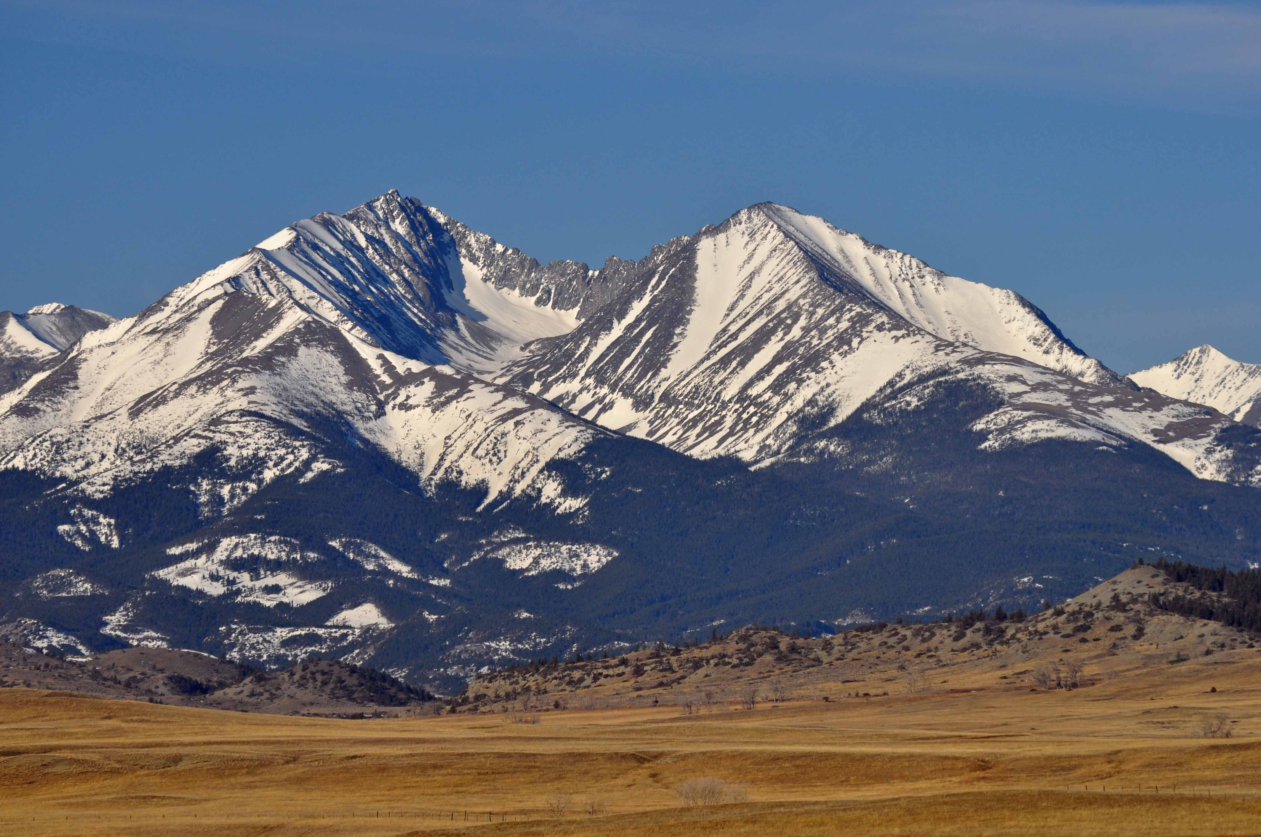 Loco Mountain in Crazy Mountains, Meagher County Montana January 2015